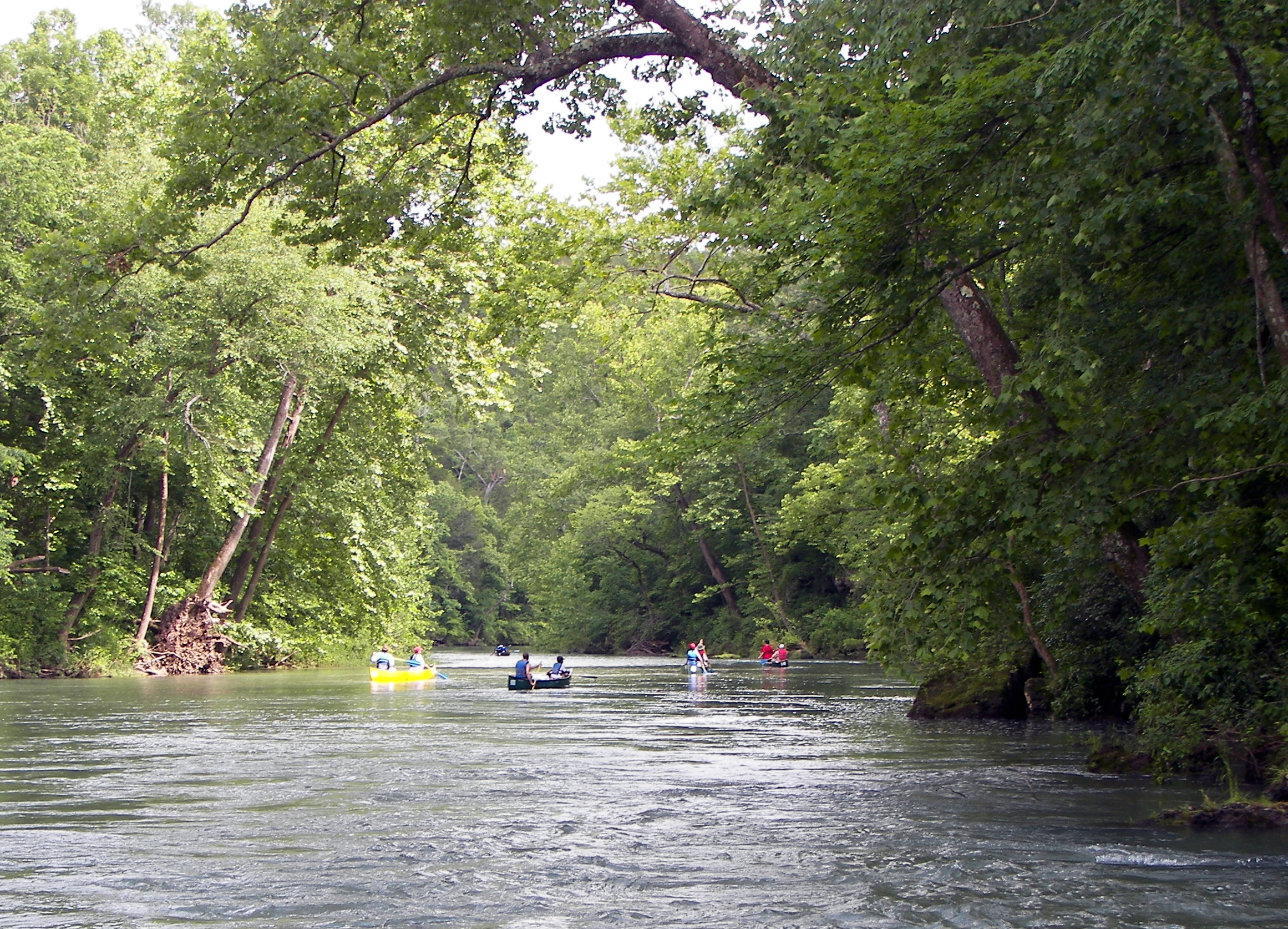 The upper Current River in the Ozarks of Shannon County in southern Missouri, between Welch Spring and Akers Ferry: This is part of the Ozark National Scenic Riverways, a national park created by Congress in 1964 to preserve the Current and Jacks Fork Rivers. The Current River contains the worlds largest concentration of first magnitude springs (flow greater than 100 ft3/s (3 m3/s)), making it a favorite for floating. Welch Spring contributes an average of 121 ft3/s (3.53m/s) to the flow of the river, practically doubling its size and speeding its flow. The large amounts of cold spring water contribute to a unique environment in the river; though located in a subtropical climate, watercress and other cold water flora and fauna thrive here.